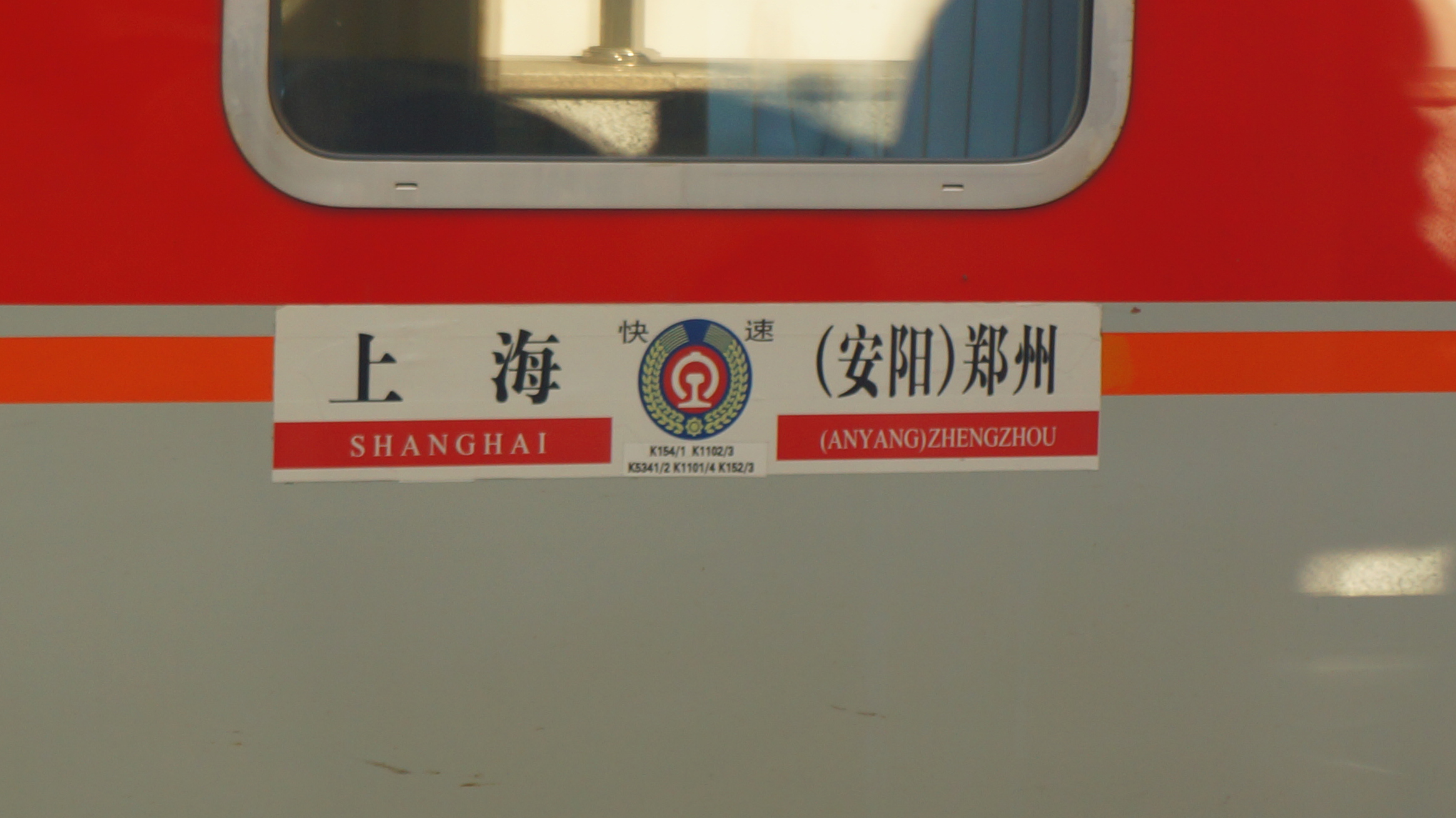 K151 2 3 4 and K1101 2 3 4 infoboard in 201510.